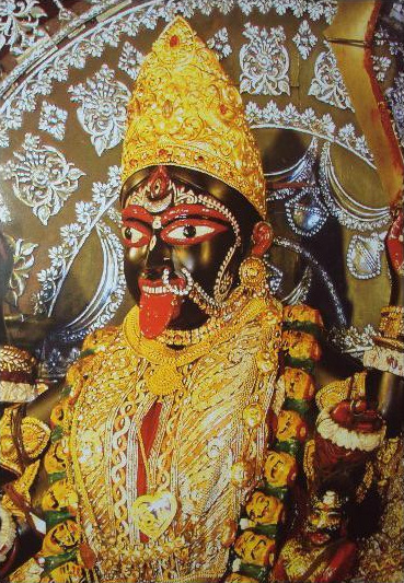 Maa Bhavatarini at Dakshineshwar Temple (Photo Frame Type)